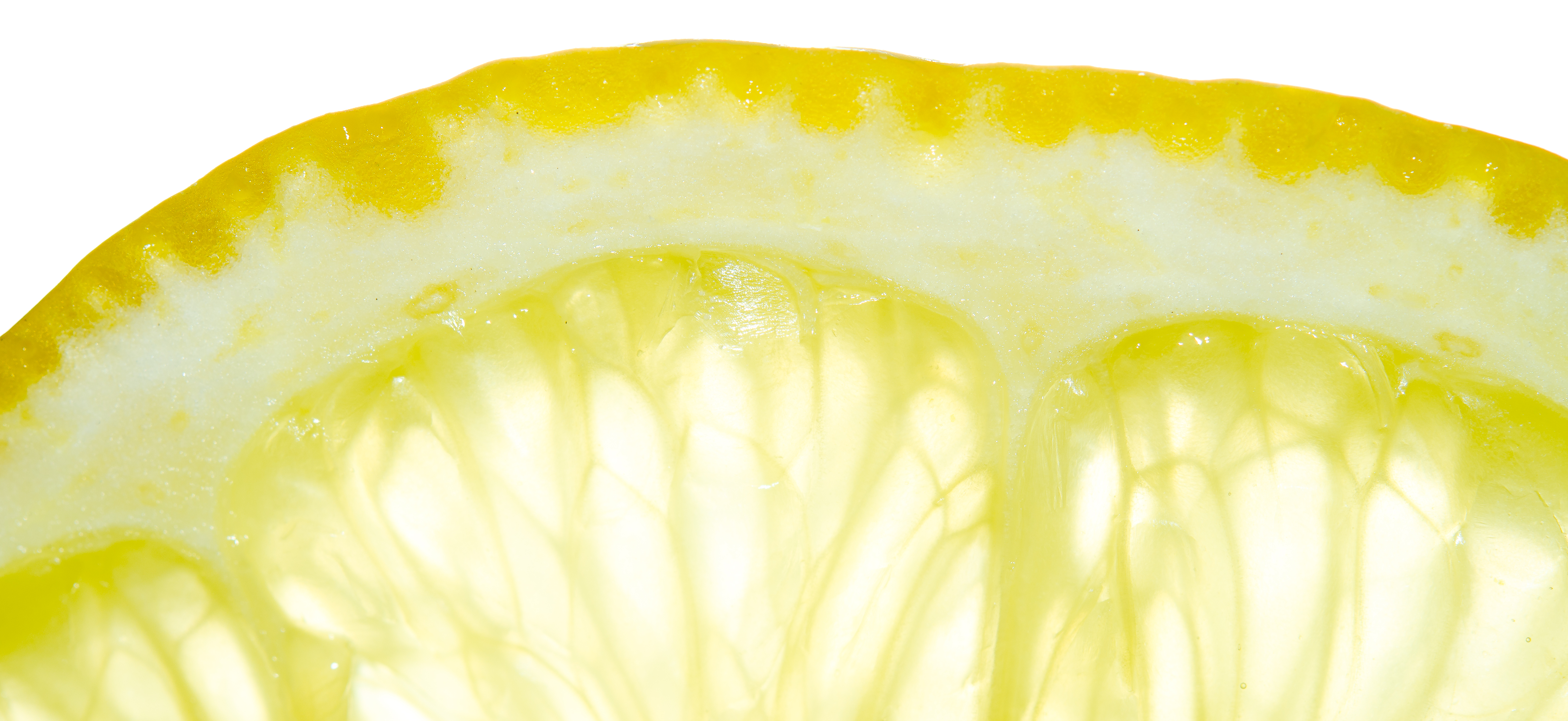 Slice of lemon (close-up)